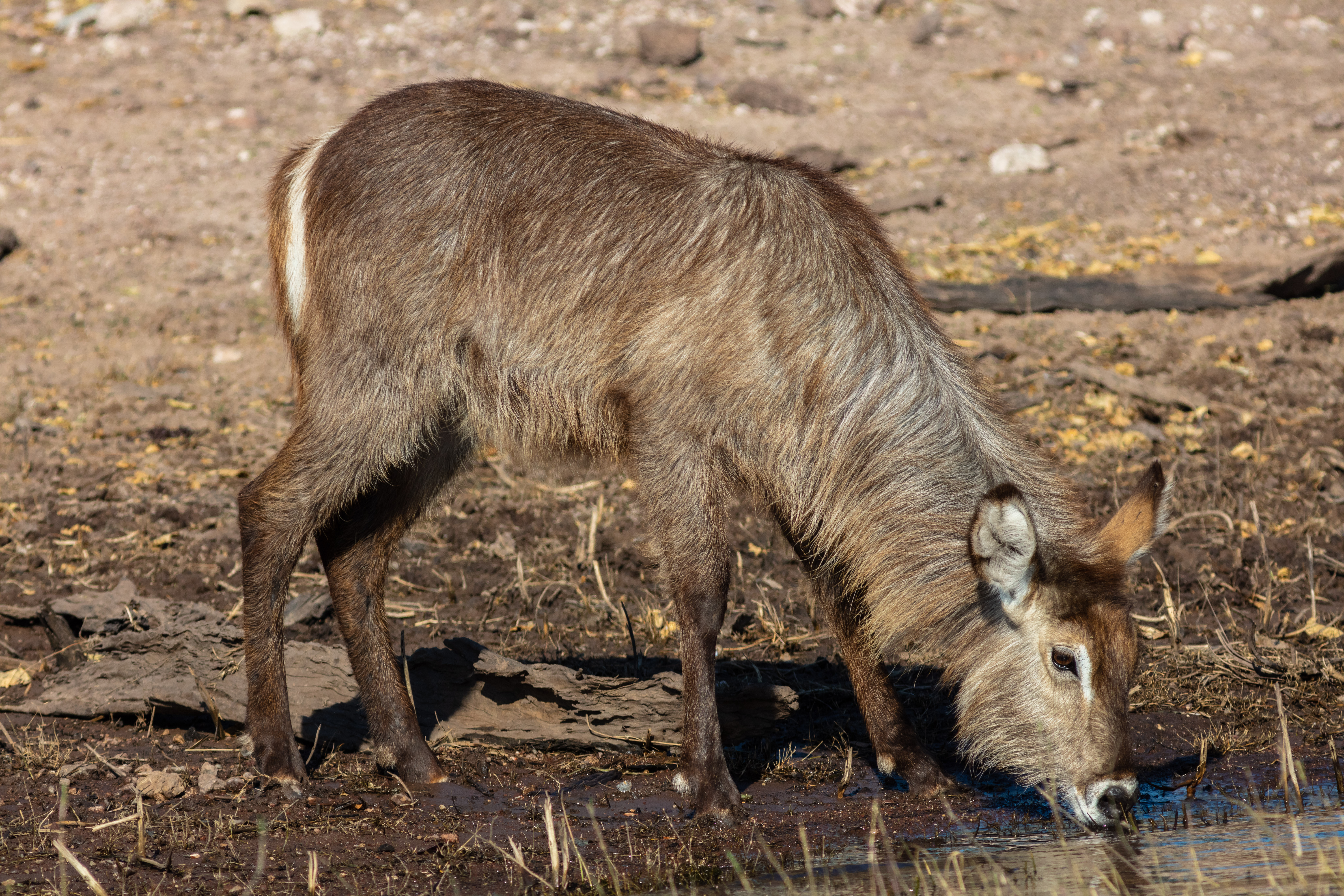 Waterbuck (Kobus ellipsiprymnus), Chobe National Park, Botswana